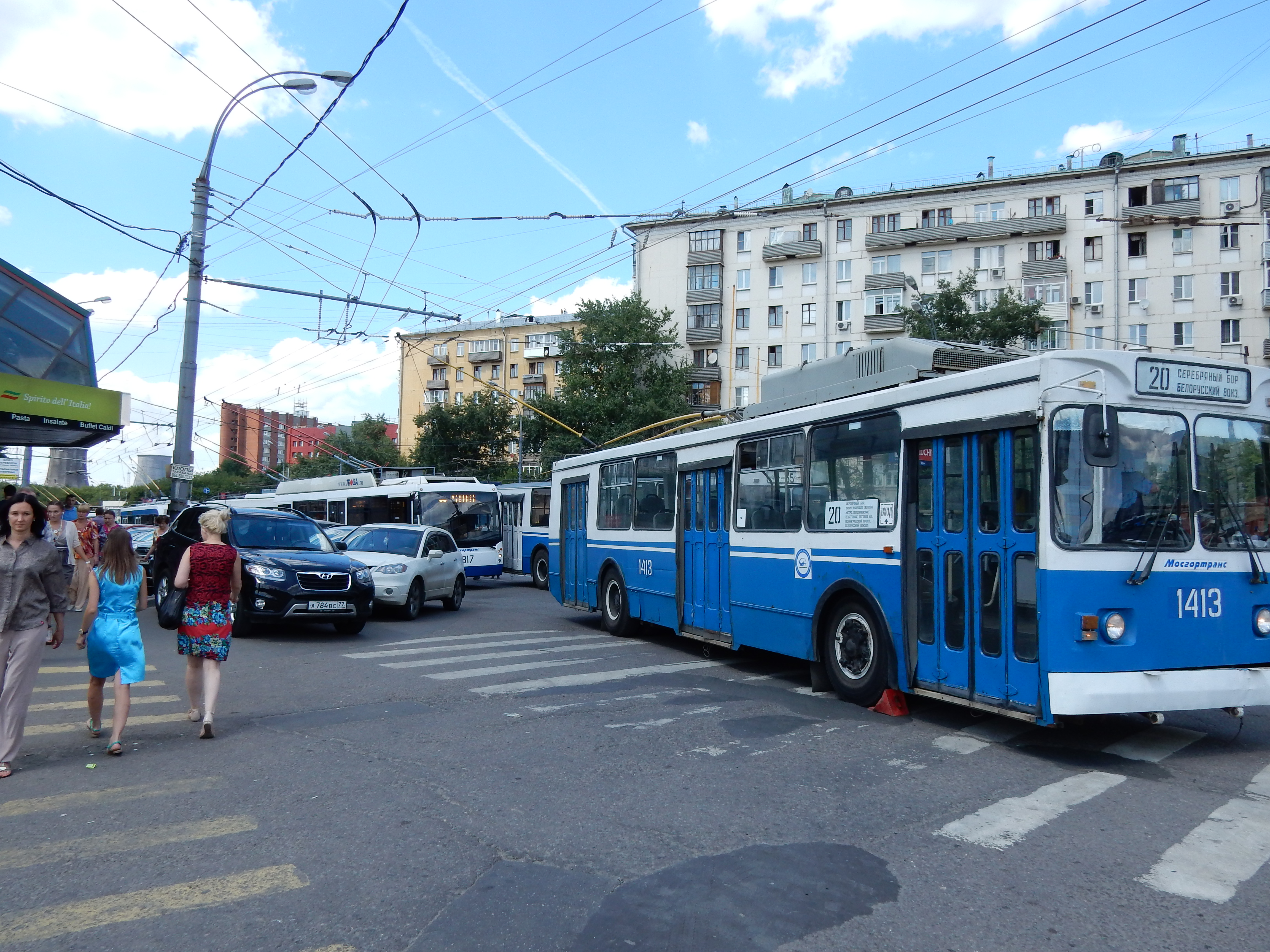 Moscow trolleybus on Khoroshovskoye highway. Russia.